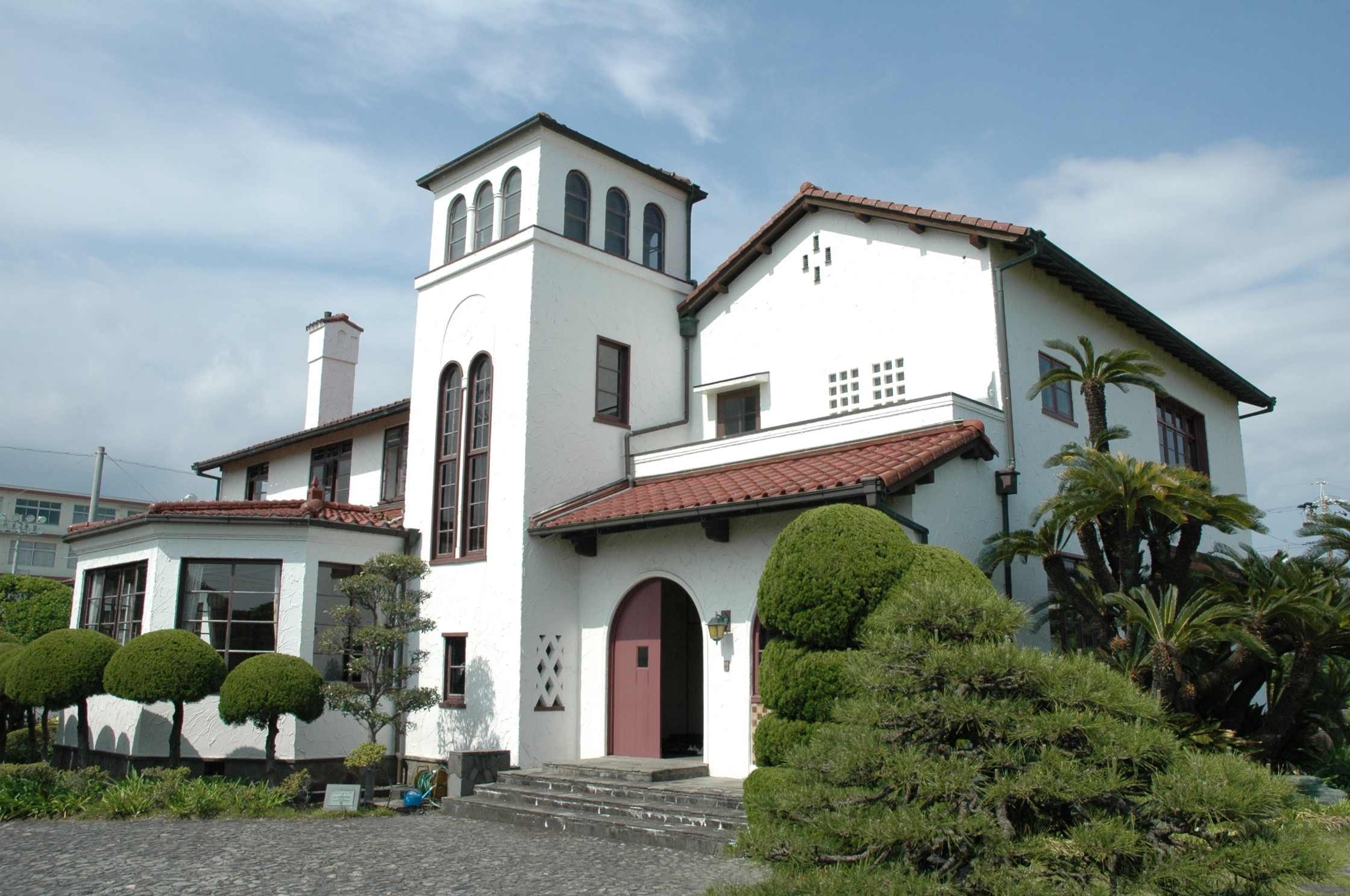 Old Mackenzie House(Suruga ward,Shizuoka city,Japan / Disigned by William Merrel Vories / Built in 1940)